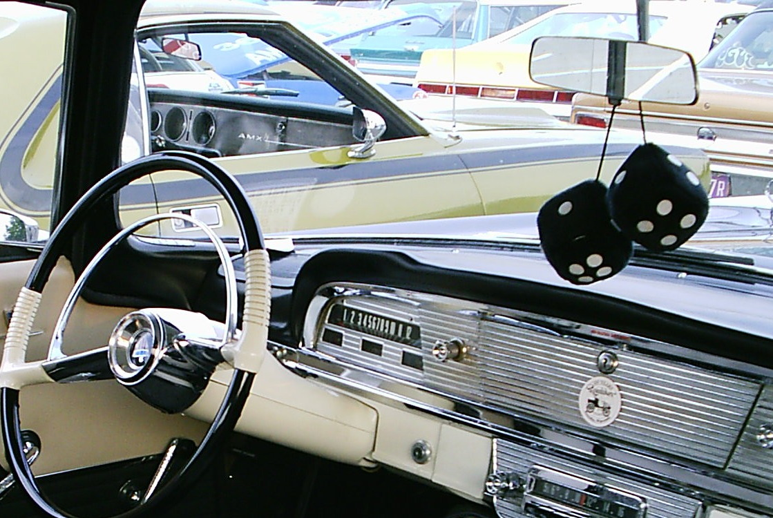 Interior view of car showing the steering wheel, instrument panel, and the decorative fuzzy dice hanging from the rearview mirror. The car is a 1958 Ambassador built by American Motors Corporation (AMC) that was also marketed under the Rambler automotive brand.